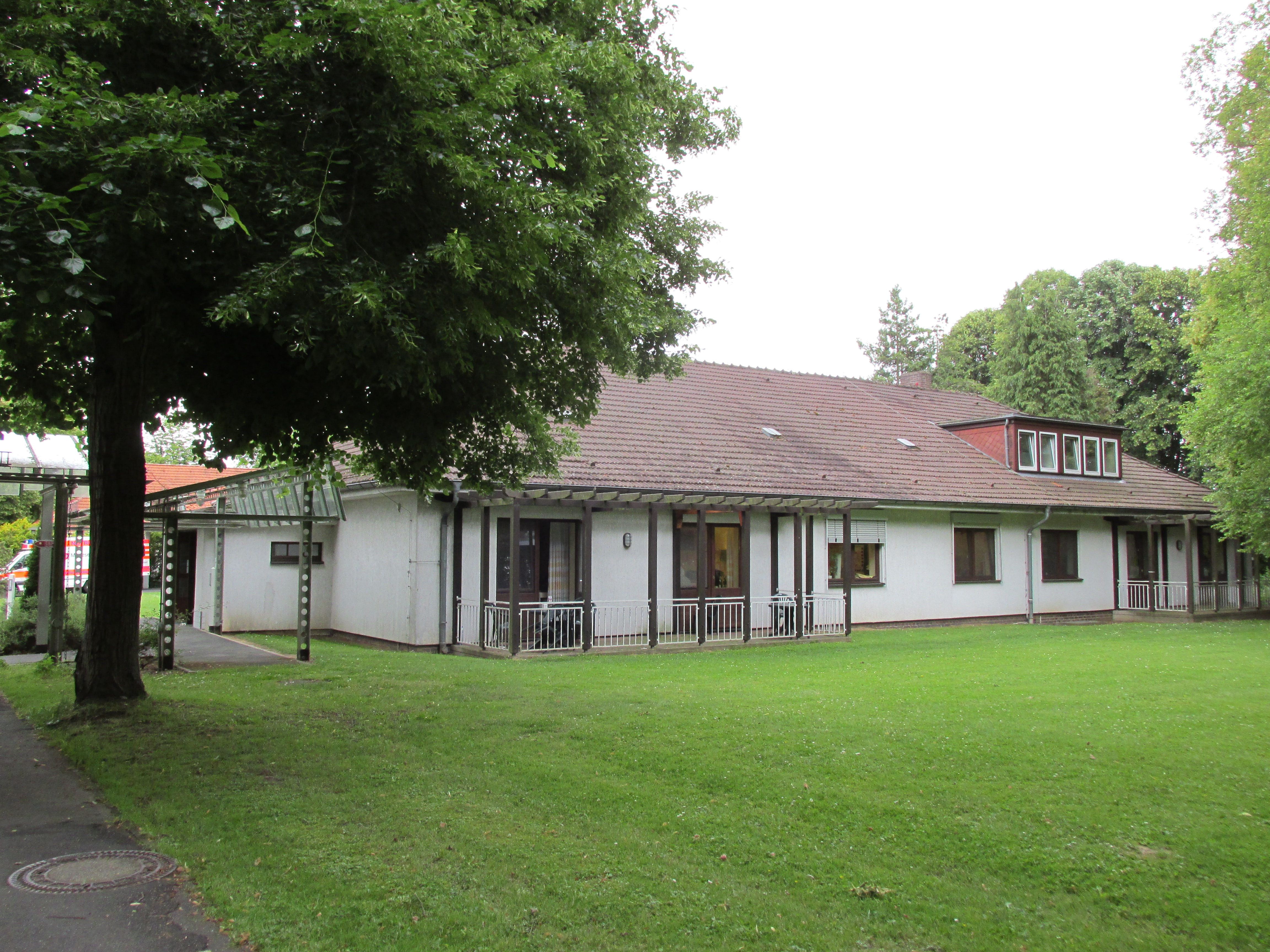 Hospital An der Lieth, Bovenden, Germany check usage Address Pappelweg 5 37120 Bovenden Germany Date21 June 2014SourceOwn work. (→ weitere 1,558 Bilder von mir in der Galerie)AuthorStefan FlöperPermission (Reusing this file) cc-by-sa-3.0, gfdl 1.2+